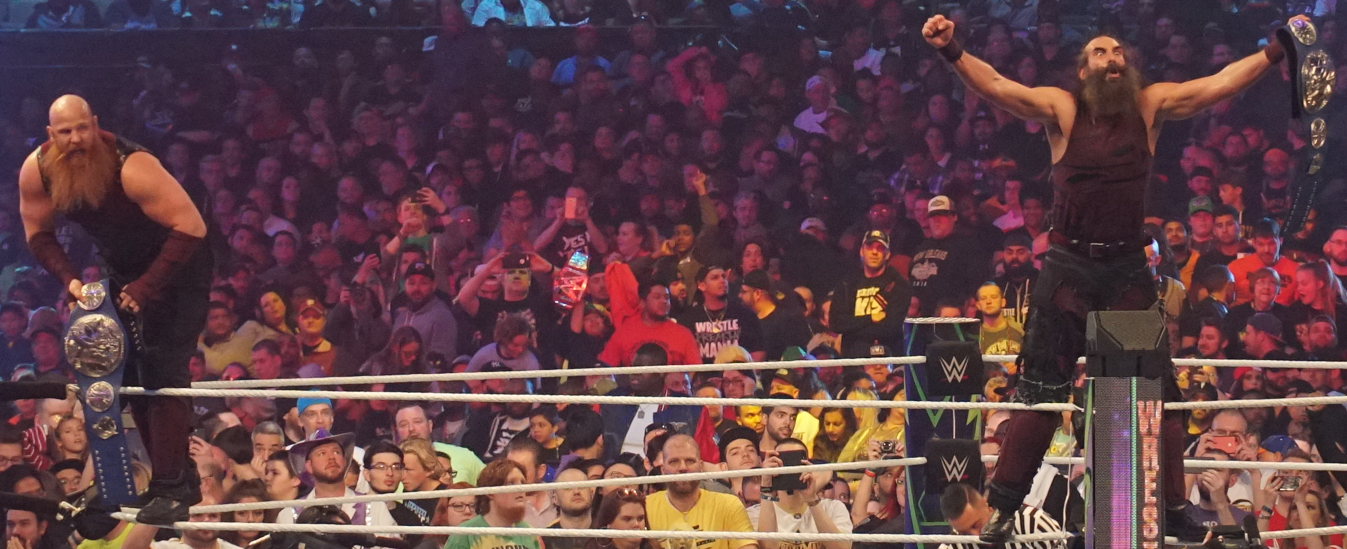 Erick Rowan & Luke Harper at WrestleMania 34 after winning the WWE SmackDown Tag Team Championship.